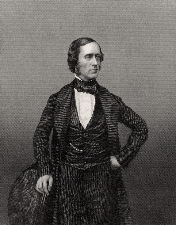 William Sterndale Bennett (1816-1875)